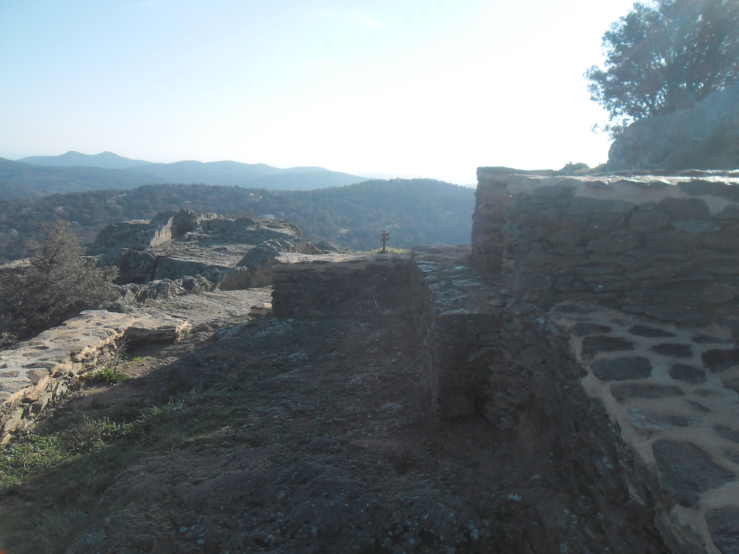 Fort Freinet